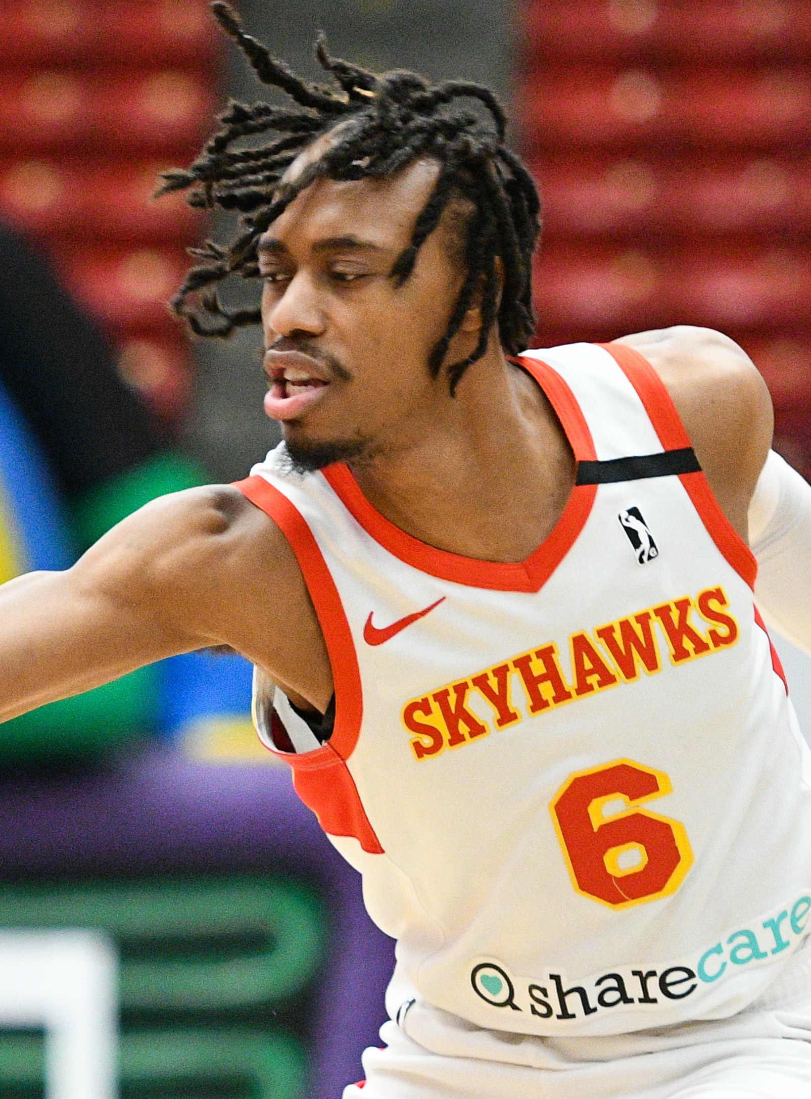 Josh Magette, Tahjere McCall. Lakeland Magic vs College Park Skyhawks. RP Funding Center. Lakeland, Fla. Feb. 9, 2020. (Photo by Tom Hagerty.)